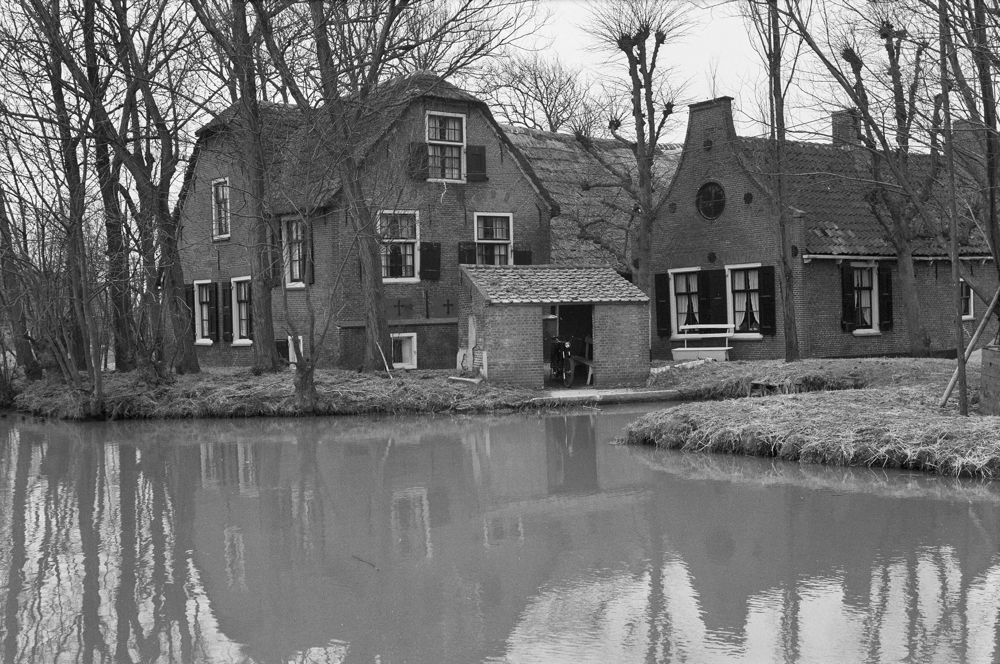 This farm (parts of which date back to 1600) was a listed building until it had to make way in 2004 for the High Speed Railway line from Amsterdam to Antwerp. It was demolished and rebuilt in the Netherlands Open Air Museum in Arnhem